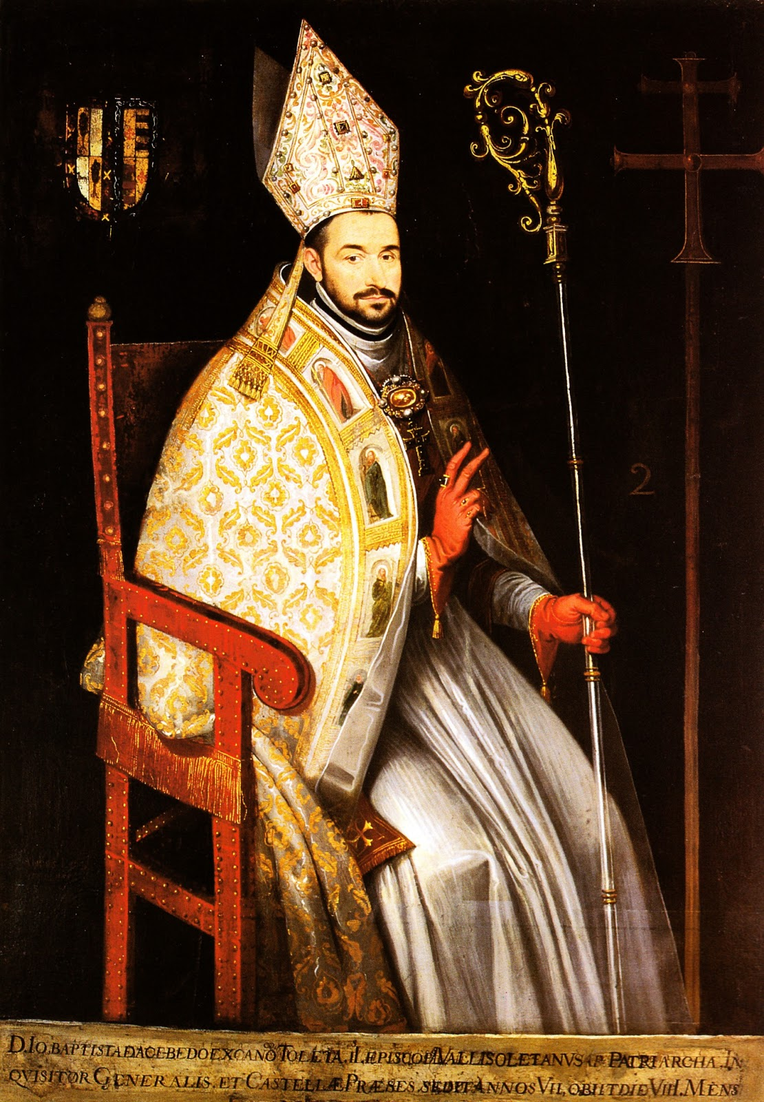 Juan Bautista de Acevedo (1555-1608), bishop of Valladolid and general inquisitor of Spain.